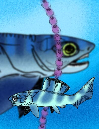 Comparison of the arthrodire placoderms, Trematosteus fontanellus (background), and Rhachiosteus pterygiatus (foreground), from the Late Devonian of Germany